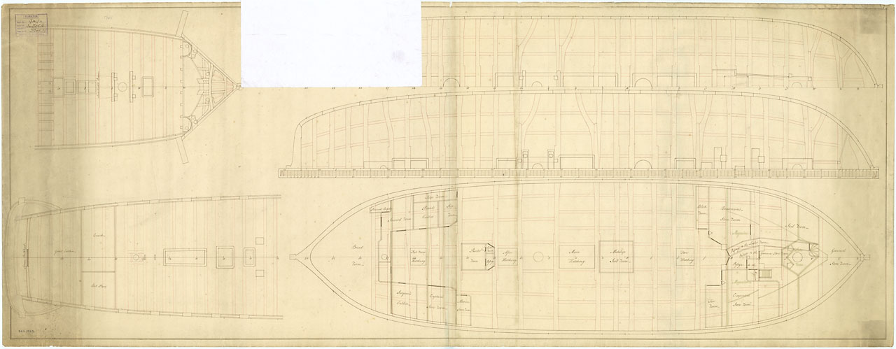 Suffolk (1765) Scale: 1:48. Plan showing the quarterdeck, forecastle, half-breadth for the upper deck and lower deck, and the orlop deck with fore & aft platforms for Suffolk (1765), a 74-gun Third Rate, two-decker. SUFFOLK 1765